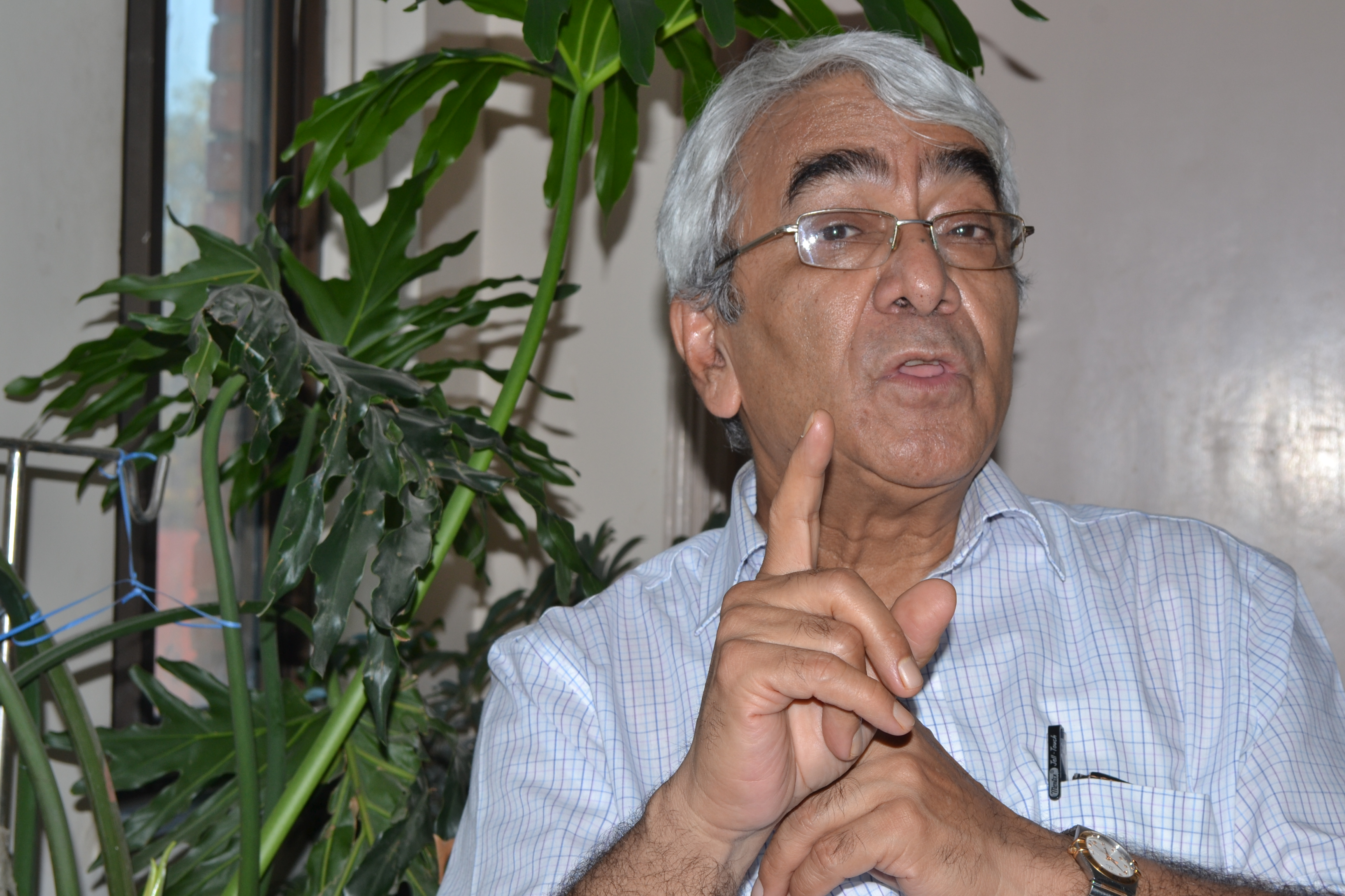 Da.Bhola Rijal is a singer also